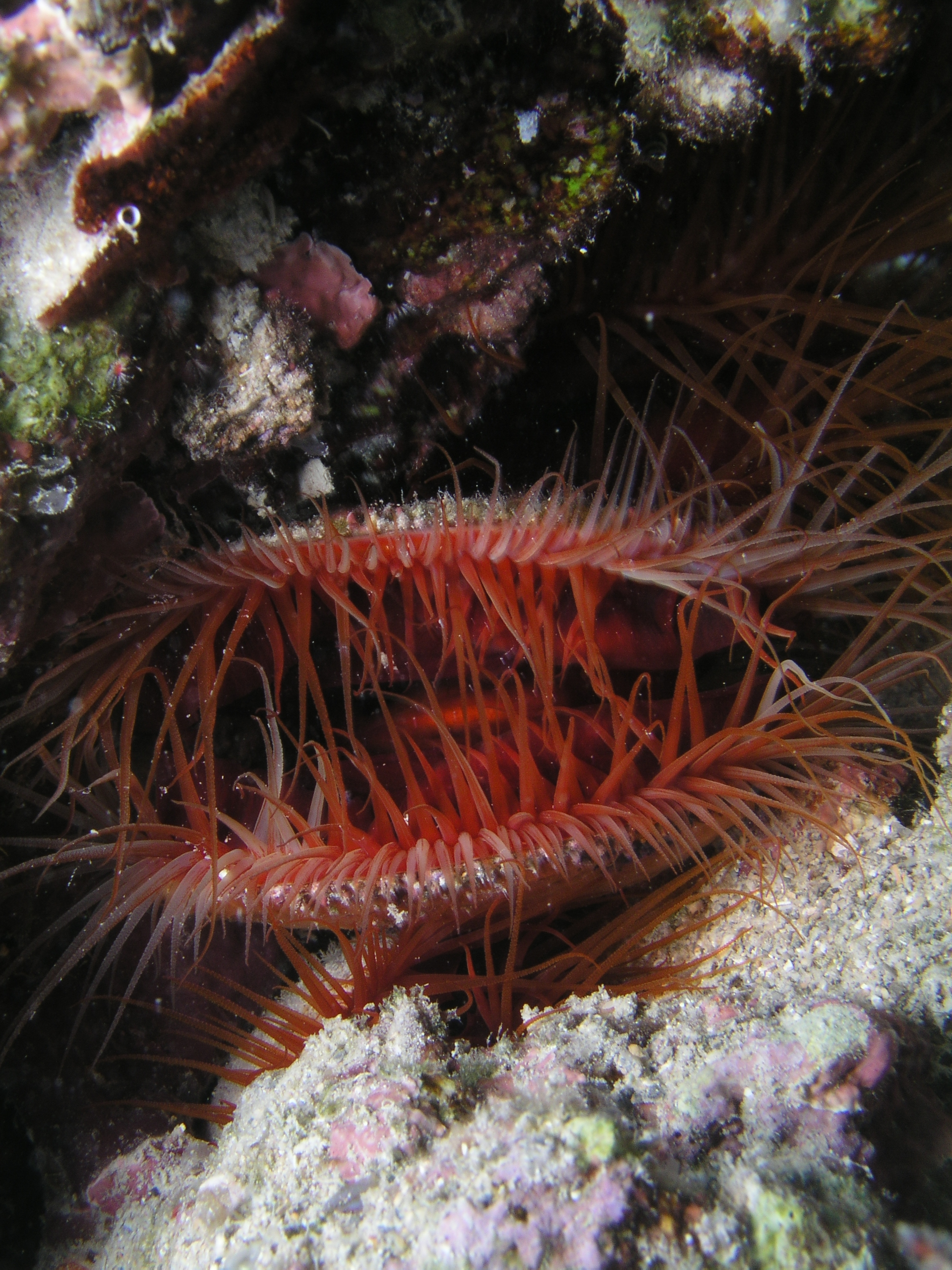 Lima scabra aka Ctenoides scaber (wild) in Florida, USA